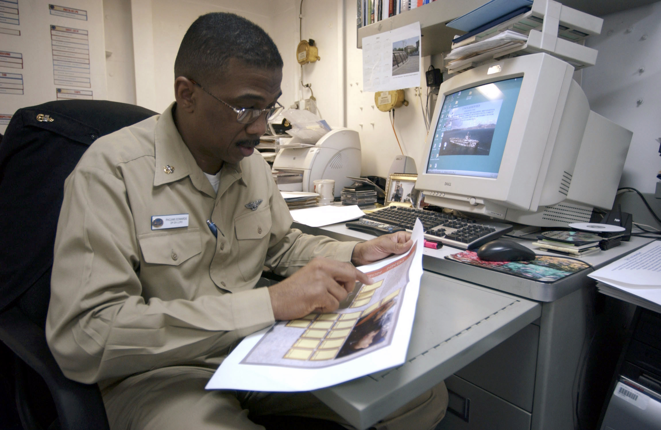 The Mediterranean Sea (Apr. 12, 2003) -- Chief Photographer's Mate Wayne Edwards proofreads a rough draft of pages from USS Harry S. Truman (CVN 75) cruise book. Truman and Carrier Air Wing Three (CVW-3) are deployed conducting combat missions in support of Operation Iraqi Freedom. Operation Iraqi Freedom is the multi-national coalition effort to liberate the Iraqi people, eliminate Iraq's weapons of mass destruction, and end the regime of Saddam Hussein. U.S. Navy photo by Photographer's Mate 3rd Class Christopher B. Stoltz. (RELEASED)